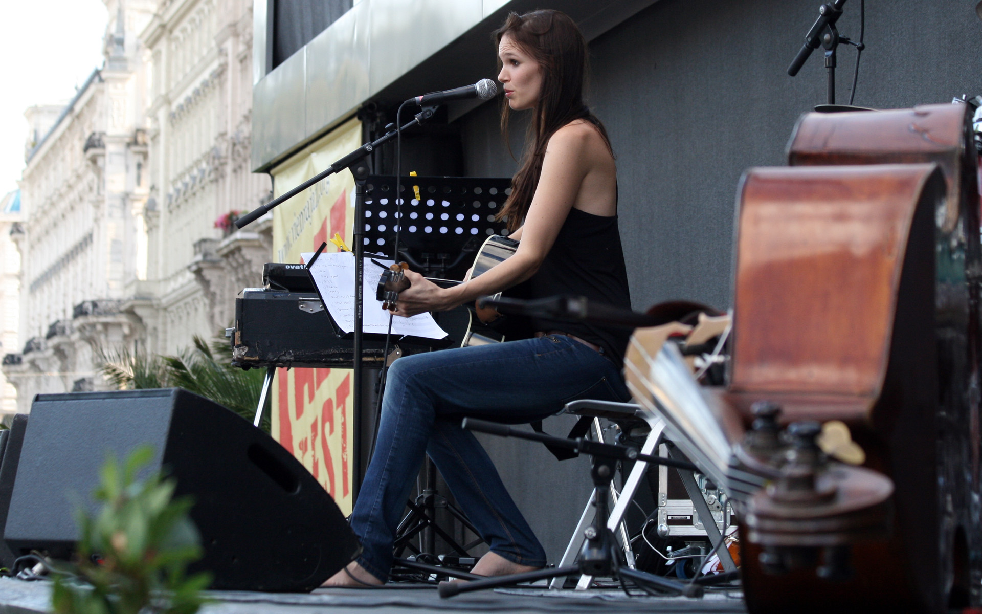 Concert of Austrian singer Soe Tolloy in front of Wiener Rathaus in Vienna (Jazz Fest Wien 2011).